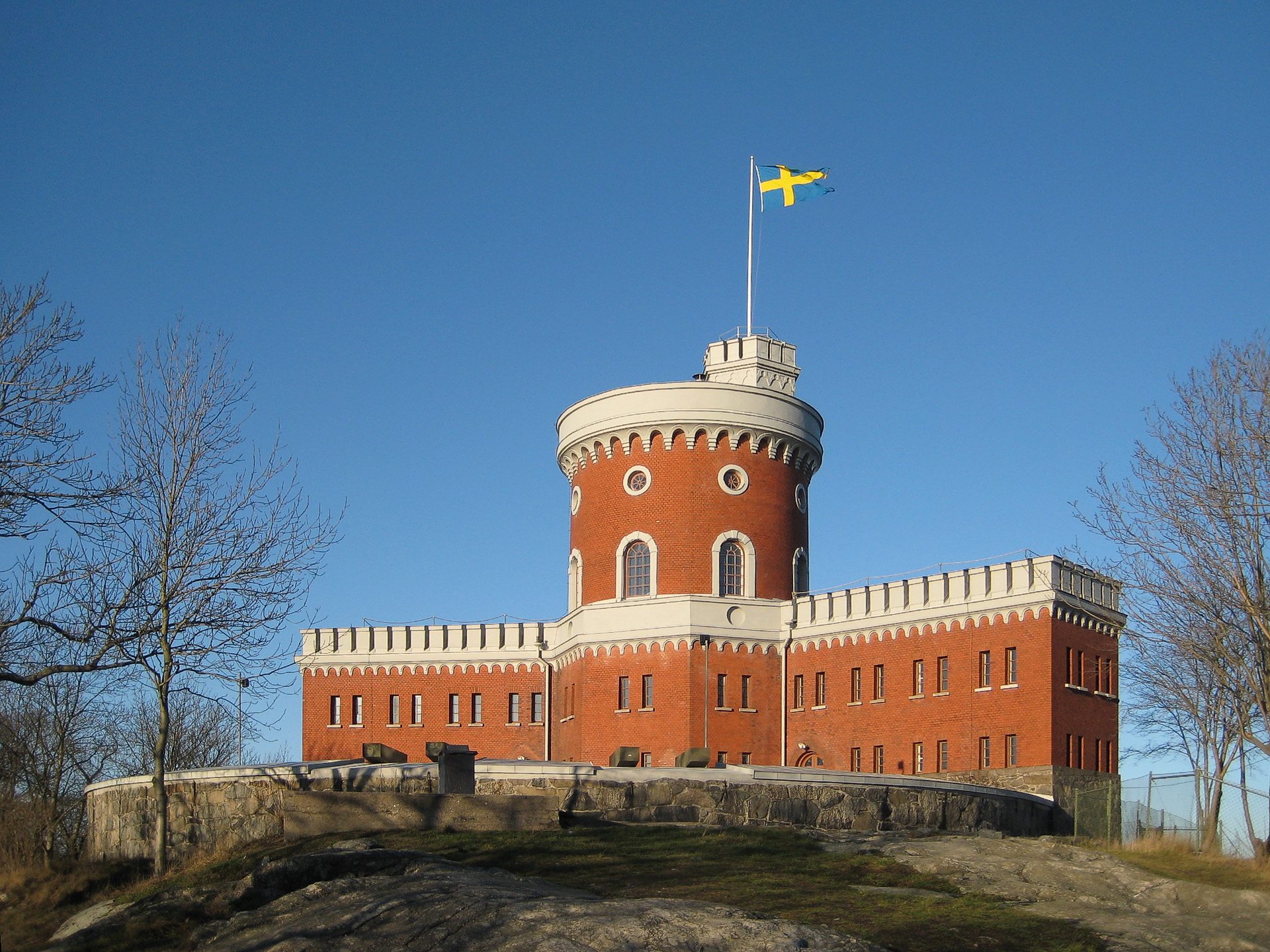 Castle on Kastellholmen (Stockholm, Sweden)